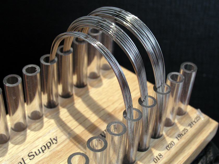 Archwires for orthodontics. The photo was taken the 23rd December 2005 by Håkan Svensson (Xauxa).